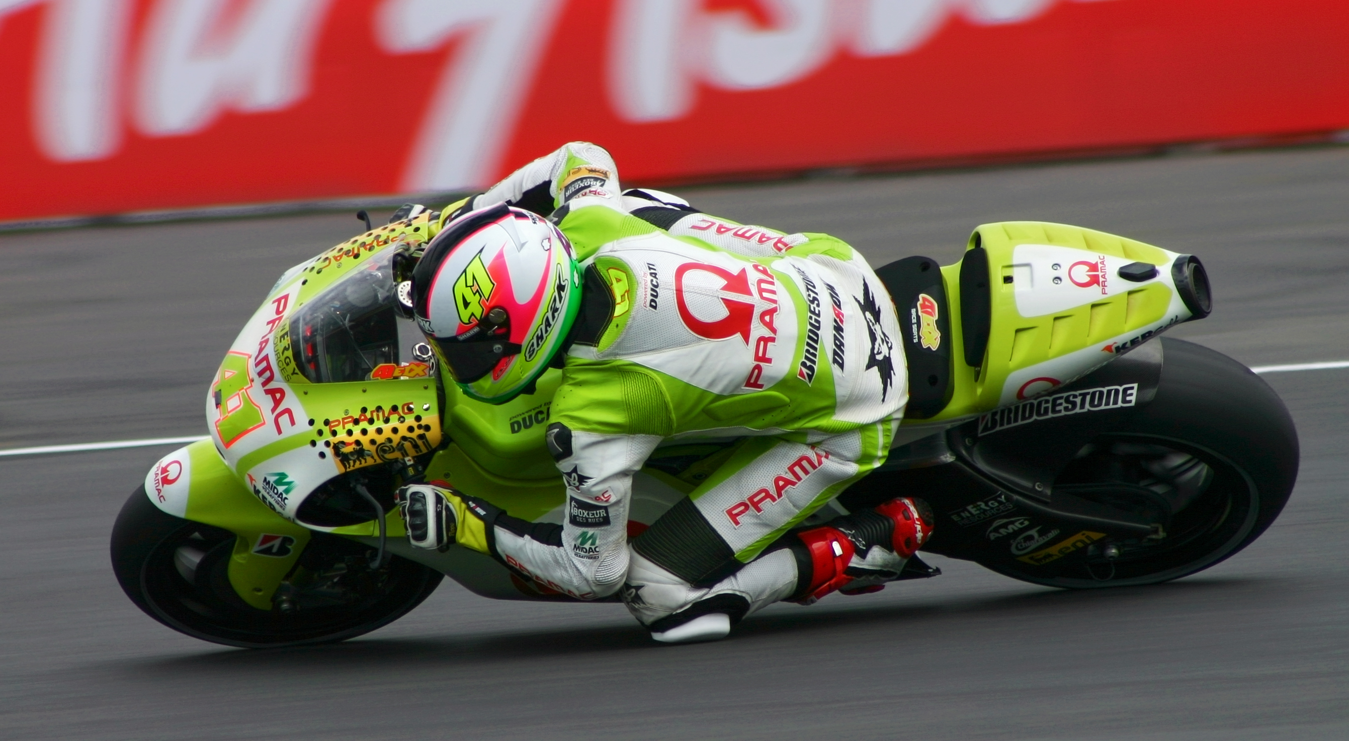 Aleix Espargaró at 2010 Silverstone